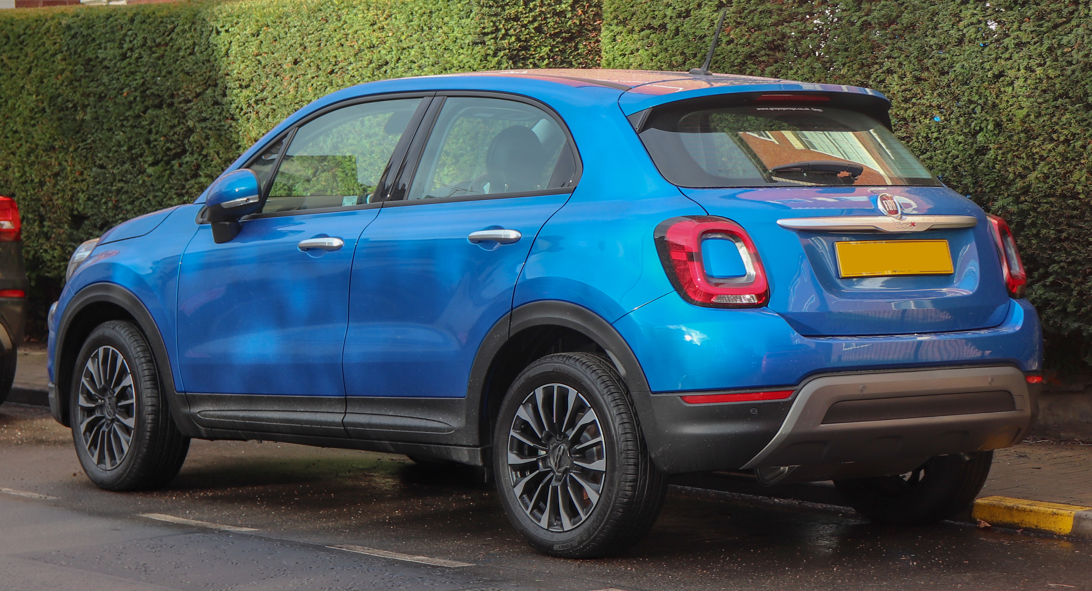 2018 Fiat 500X City Cross 1.0 Rear Taken in Warwick